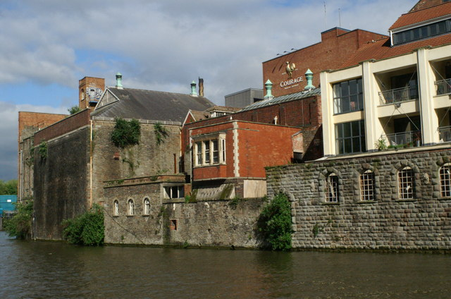 Former Courage Brewery, Bristol. South of the Floating Harbour, on the boundary of ST5972 and ST5973. Now the site of the Finsels Reach redevelopment.